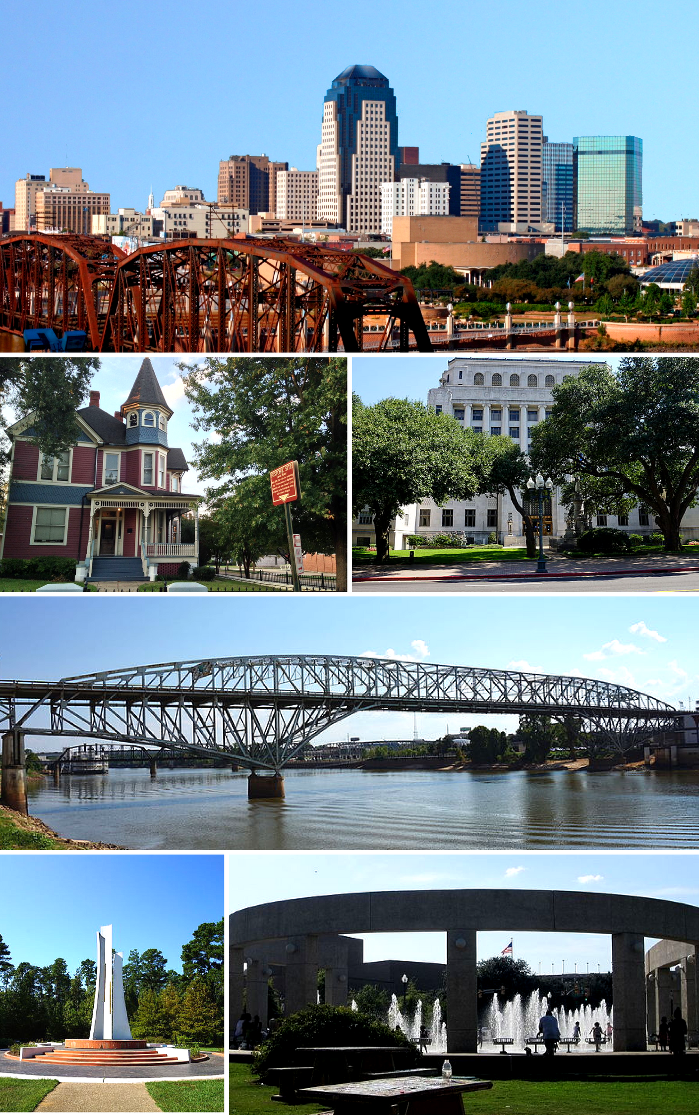 Shreveport Header Infobox Collage